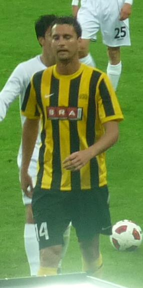 Peter Nyström in 2011 playing for BK Häcken with FC Honka player behind.